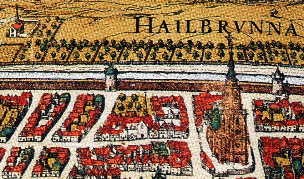 The Carmelite monastery in Heilbronn 1617